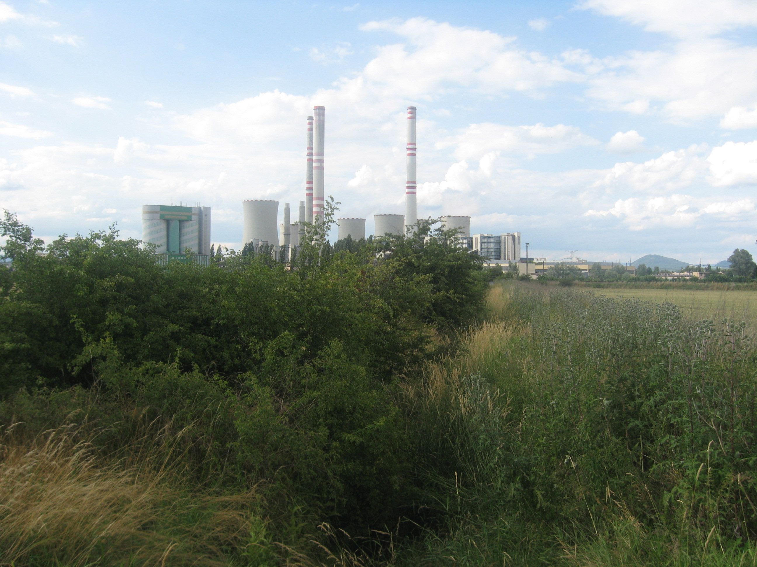 Bed of Počeradský potok, Počerady Power Plant in the backround